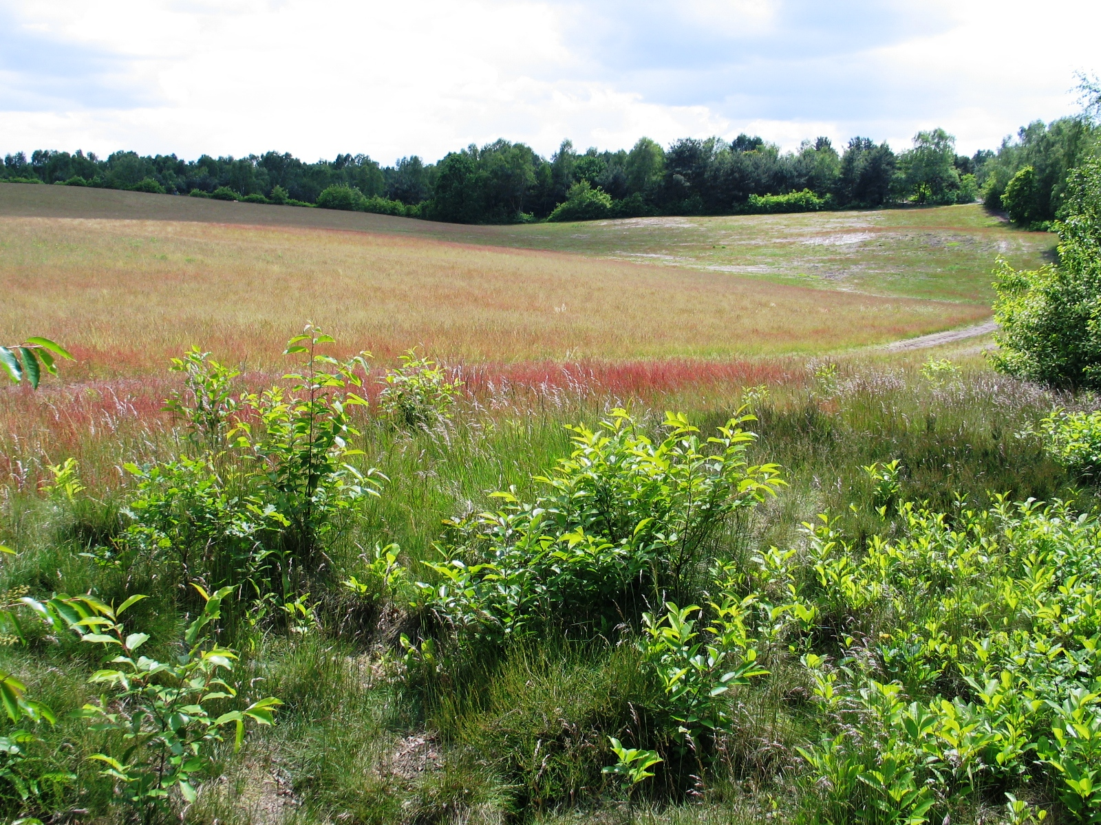 Teut nature reserve in Zonhoven.